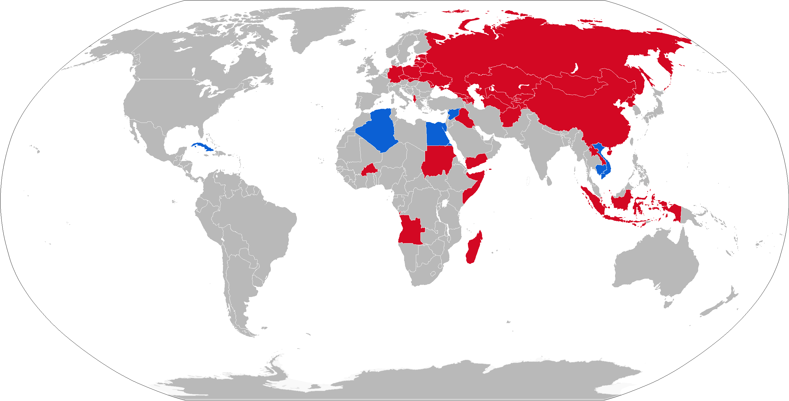 Map of BM-14 operators in blue with former operators in red